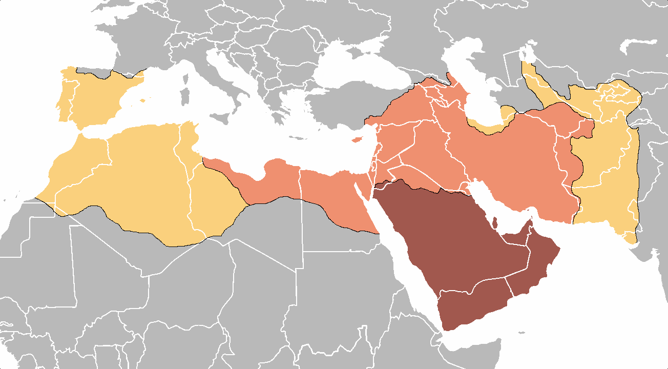 Age of the Caliphs (version with more surrounding space)